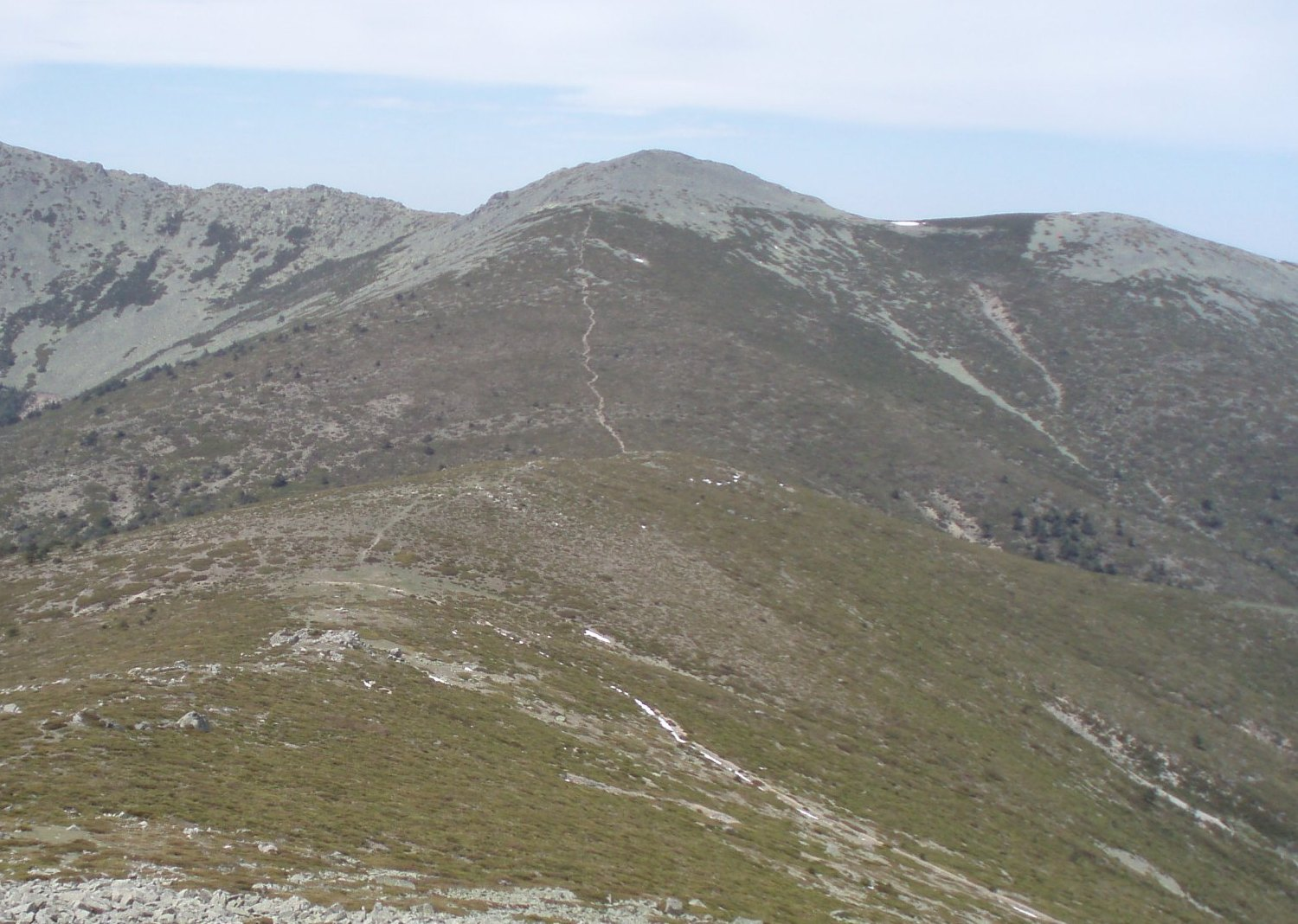 La Pinareja mountain, Guadarrama mountain range, Central Spain.